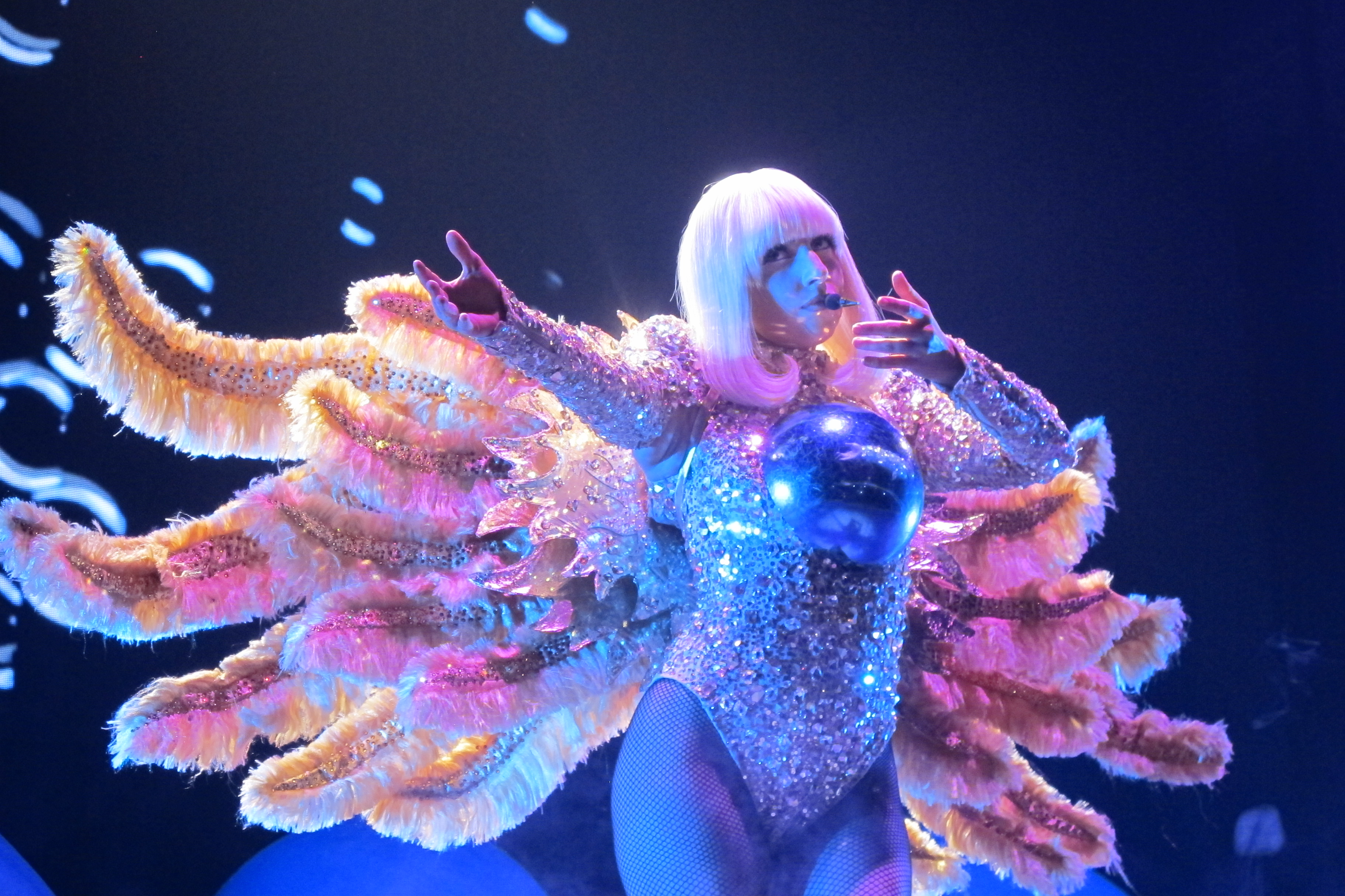 IMG_8142 Lady Gaga performing at ArtRave: The Artpop Ball of San Diego